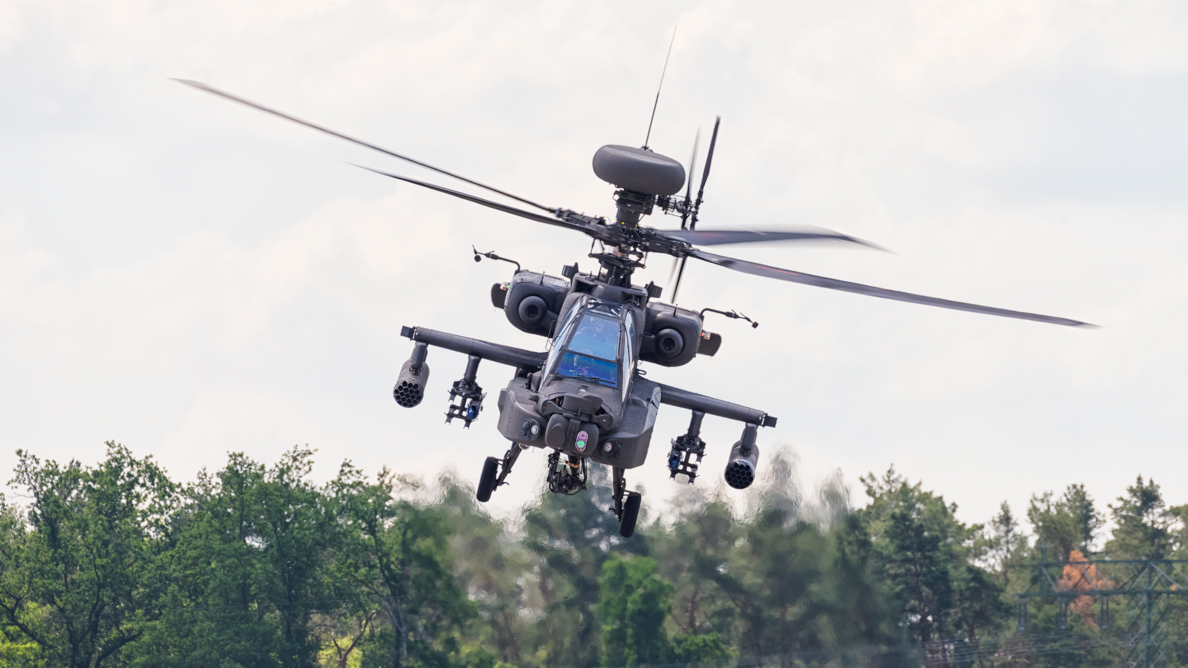 United Kingdom Army Air Corps Attack Helicopter Display Team (AHDT) Westland WAH-64D Longbow Apache AH1 (reg. ZJ203, cn DU037/WAH037) at ILA Berlin Air Show 2016.